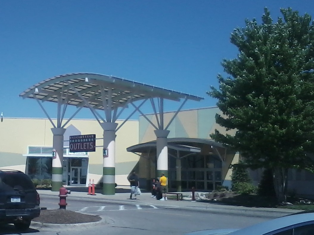 Great Lakes Crossing mall entry, May 2014.